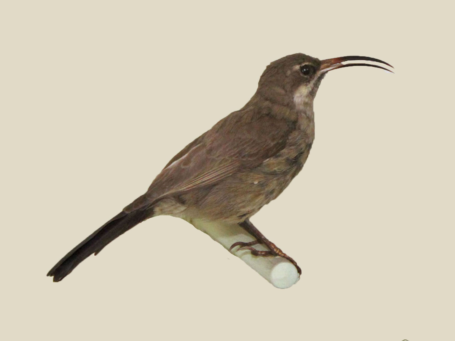 Female Tacazze Sunbird (Nectarinia tacazze). Photograph of a specimen at Nairobi National Museum in Nairobi, Kenya.